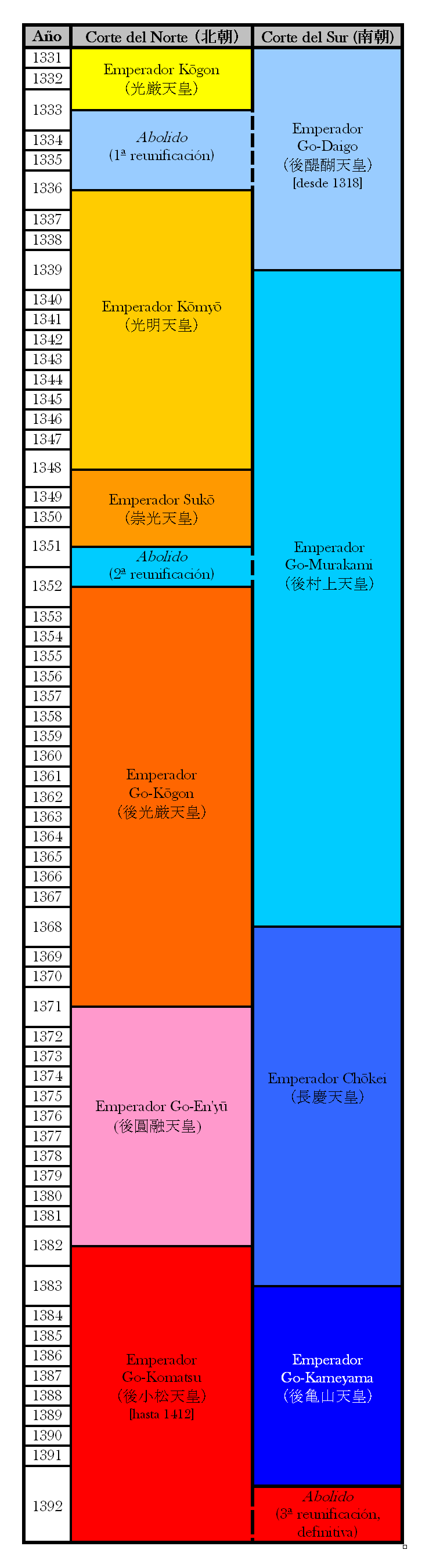 Emperors in the Nanboku-cho period in the History of Japan (1331 - 1392) - titled in spanish Emperadores del período Nanobku-cho en la Historia de Japón (1331 - 1392)